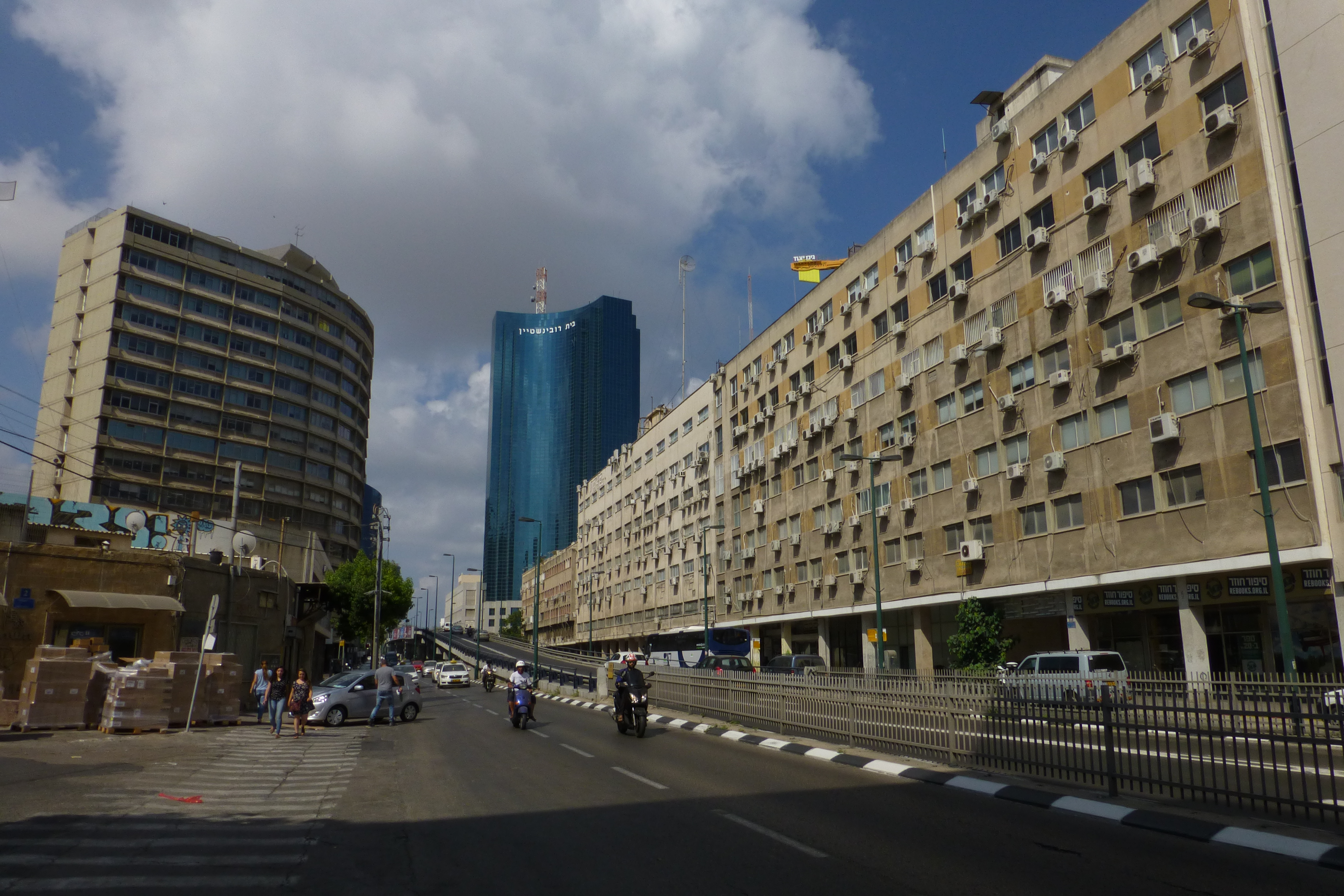 Maariv bridge